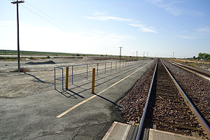 Allensworth State Park station platform